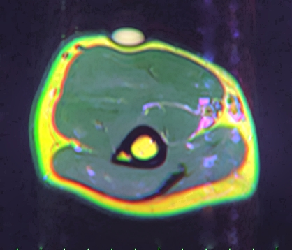 Subcutenous Lipoma in arm MRI. T2 TSE in Red channel, T1 TSE in Green channel, T2 STIR in Blue channel.